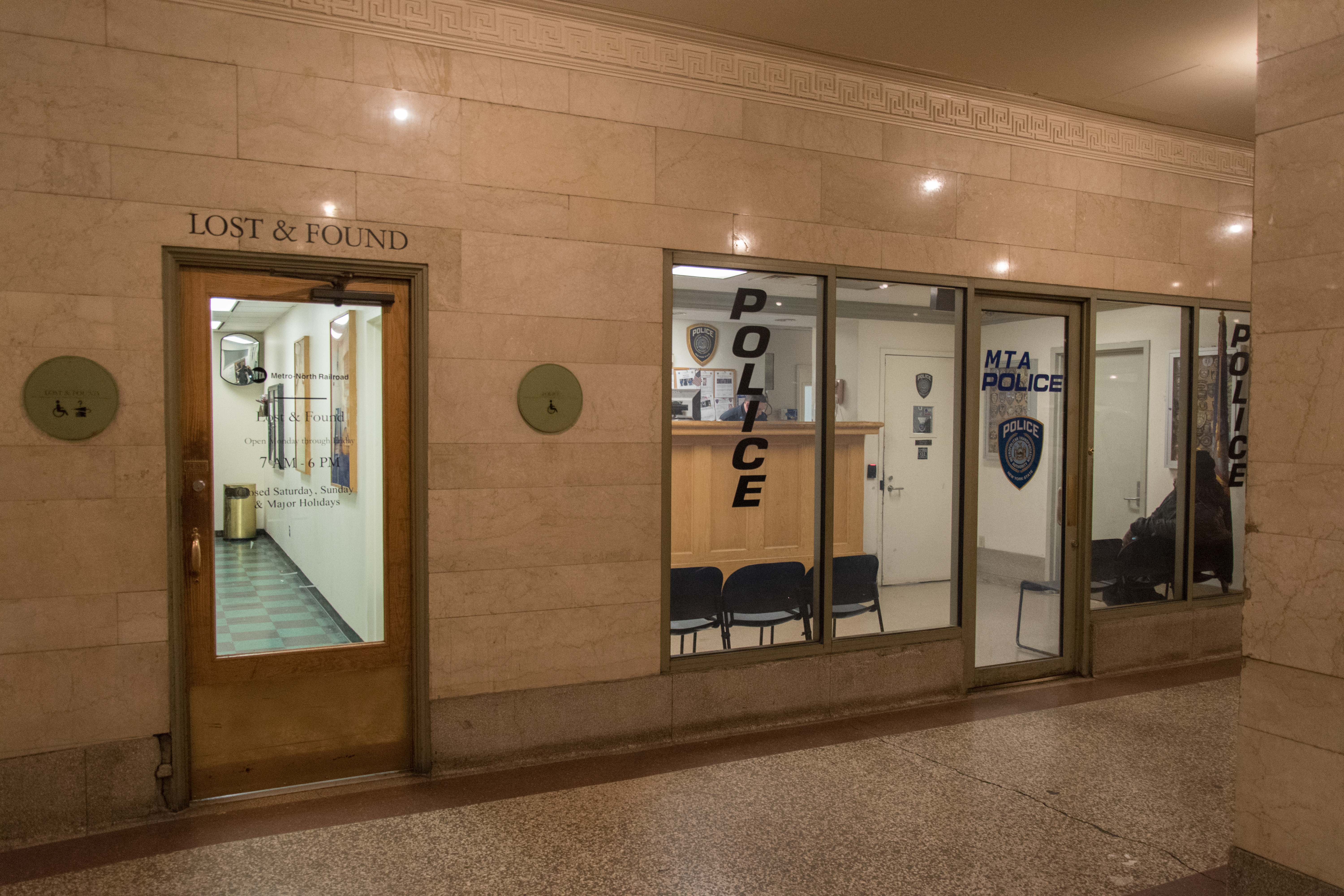 MTA Police and Lost and Found in New York City's Grand Central Terminal in 2019. Taken as part of a scheduled photoshoot with three other Wikipedians on January 7, 2019.